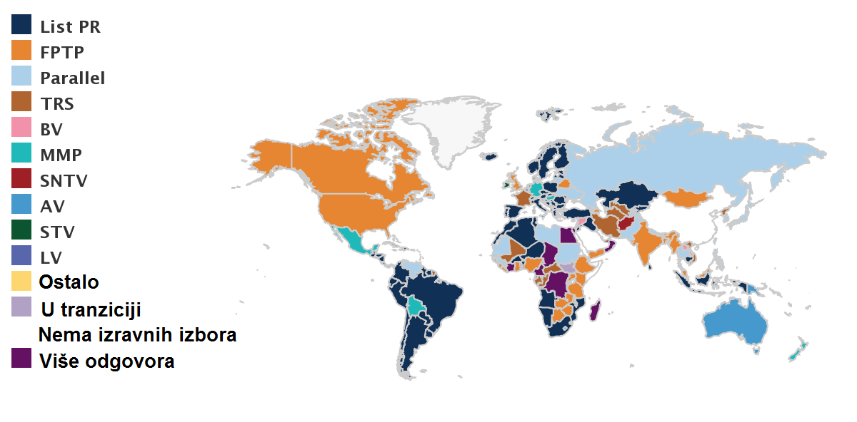 The original work has been modified. This is an unofficial translation of the original work from English to Croatian. The accuracy of the translated text was not verified by International IDEA.